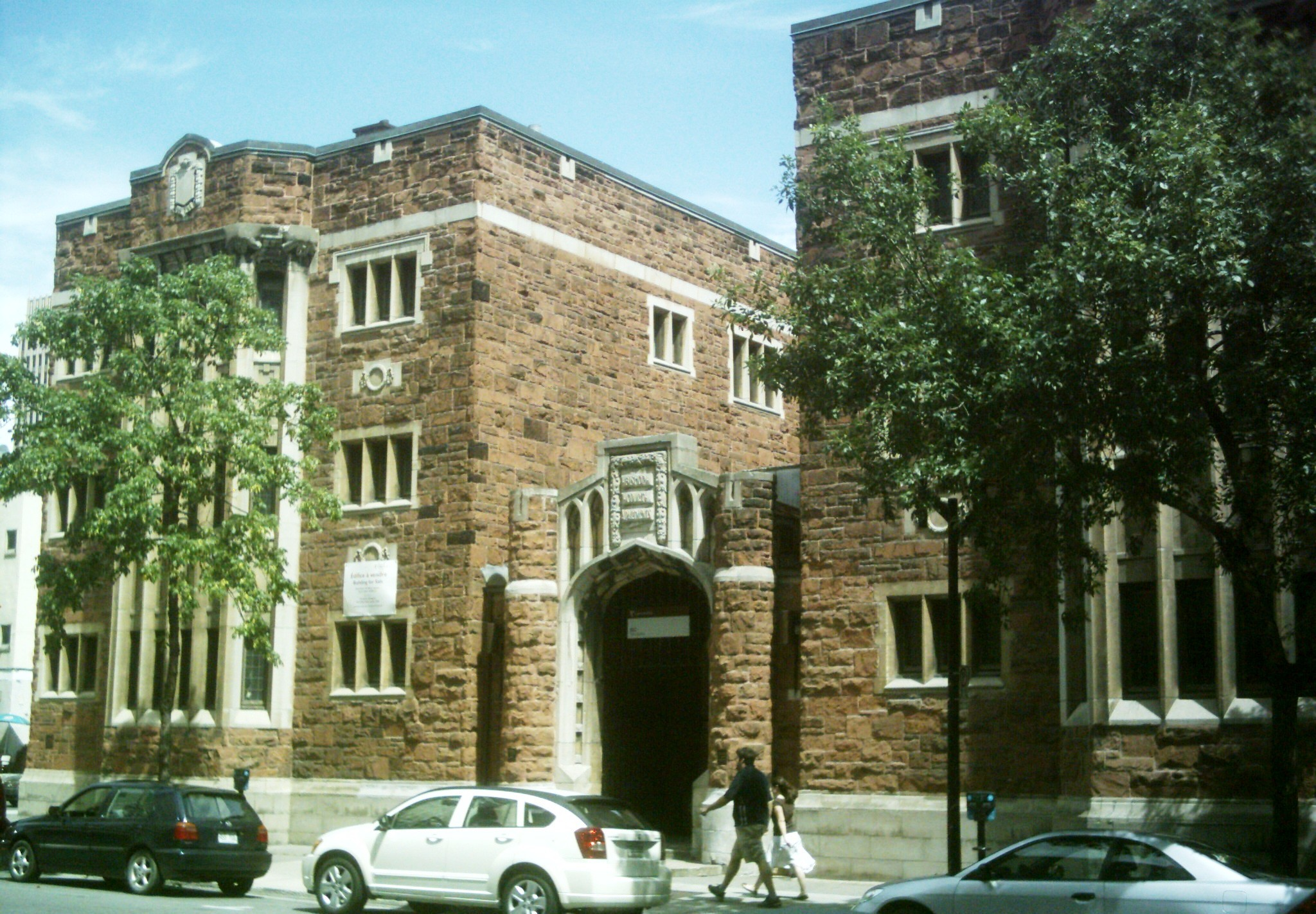 Bishop Court Apartments, 1463, Bishop Streets, Montreal, Quebec, H3G, Canada.